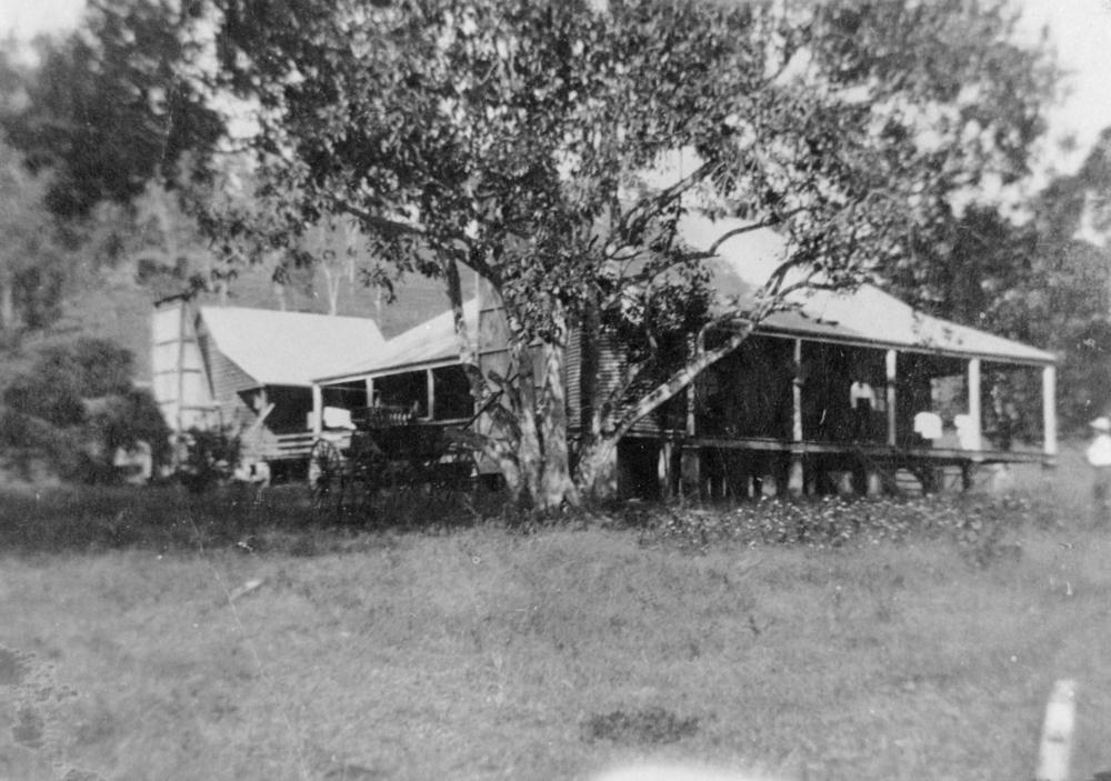 Homestead at The Hollow near Beaudesert, ca. 1898 The Hollow was subdivided from the main property, Tamrookum under the Closer Settlement Acts in the 1870s. At one time owned by G. A. Kingsley and later leased to H. Bruxner and called Jelbyn. The original selector was Lord Henry Phipps, Kingsley purchased it in the 1880s and it was rented to Harry Bruxner some time after 1898, the year of Kingsley's death. (Description supplied with photograph.).